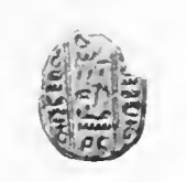 Picture of a scarab of the Hyksos ruler Aperanati, now in the Petrie Museum (UC 11655), Second intermediate period. [ref: - Heqa-khasut Aperanati (foreign ruler Aperanati)